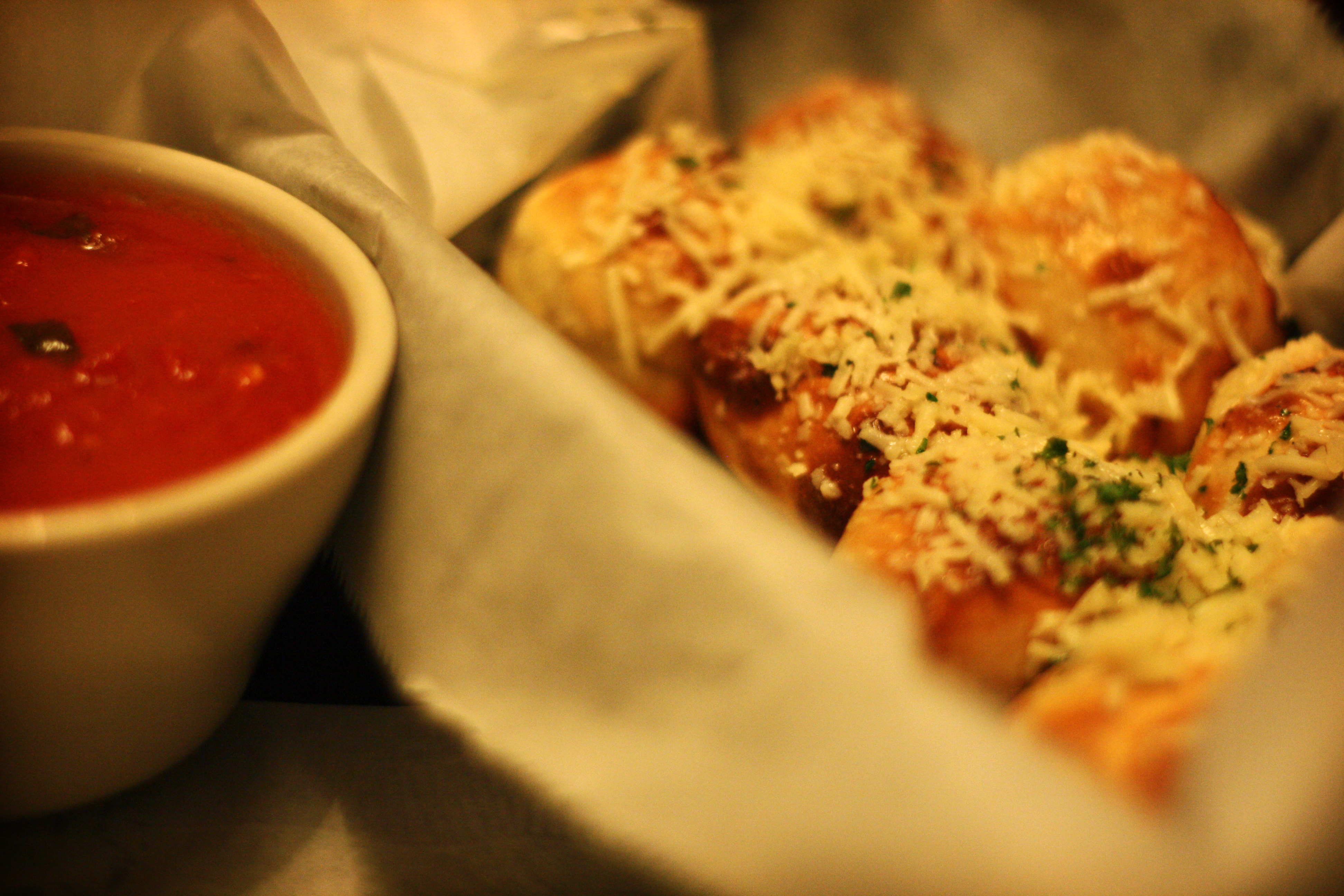 We went out to dinner at the Union Grill & it was so tasty. We had these garlic rolls as an appetizer-- they were tiny little rolls, almost a pretzel consistency, covered in olive oil, fresh garlic, and delicious cheese. SOOOO GOOD. March 4, 2010 63/365